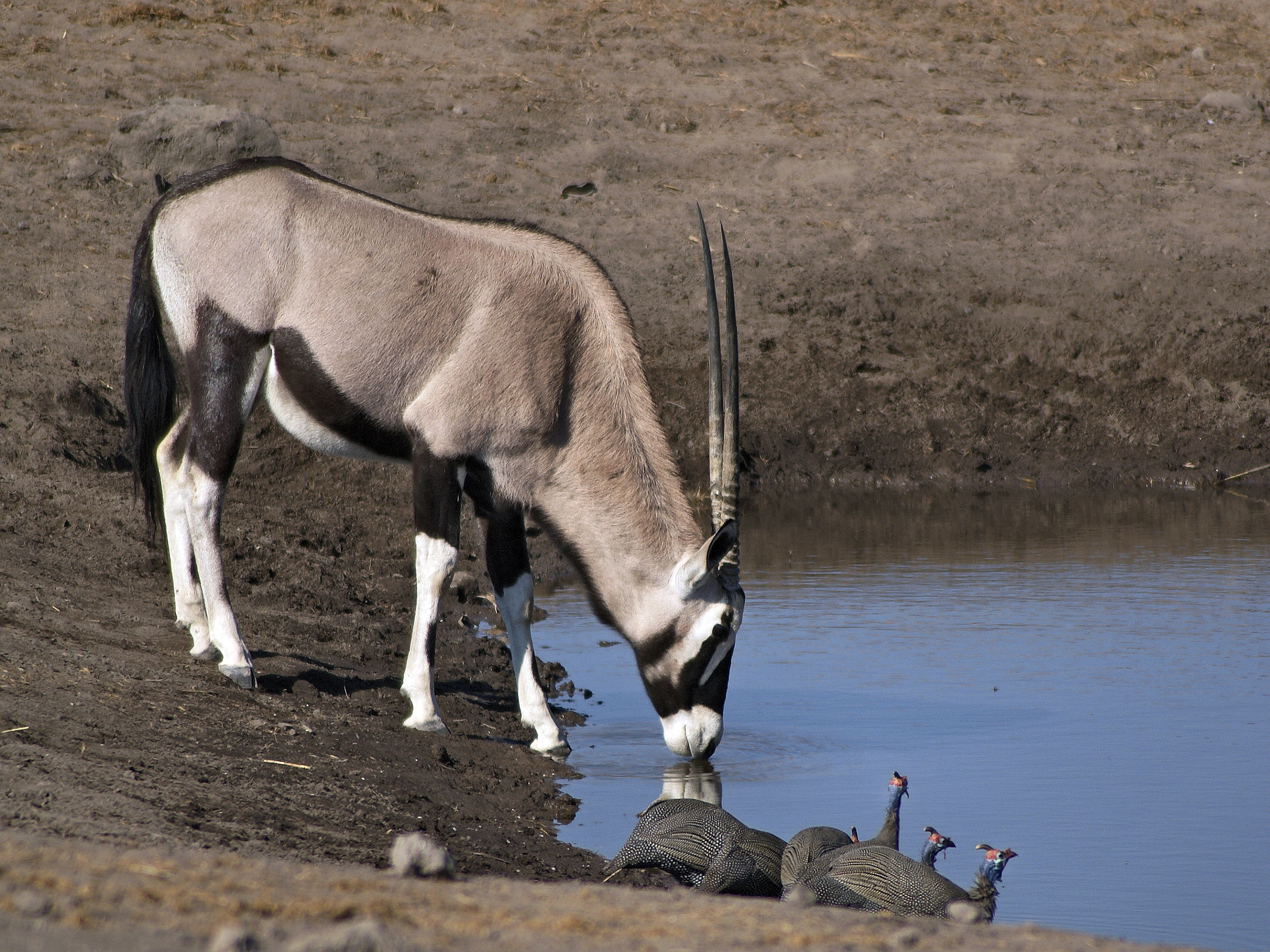 A Gemsbok (or Southern oryx) drinking alongside six Helmeted guineafowl at Chudop waterhole in Etosha, Namibia